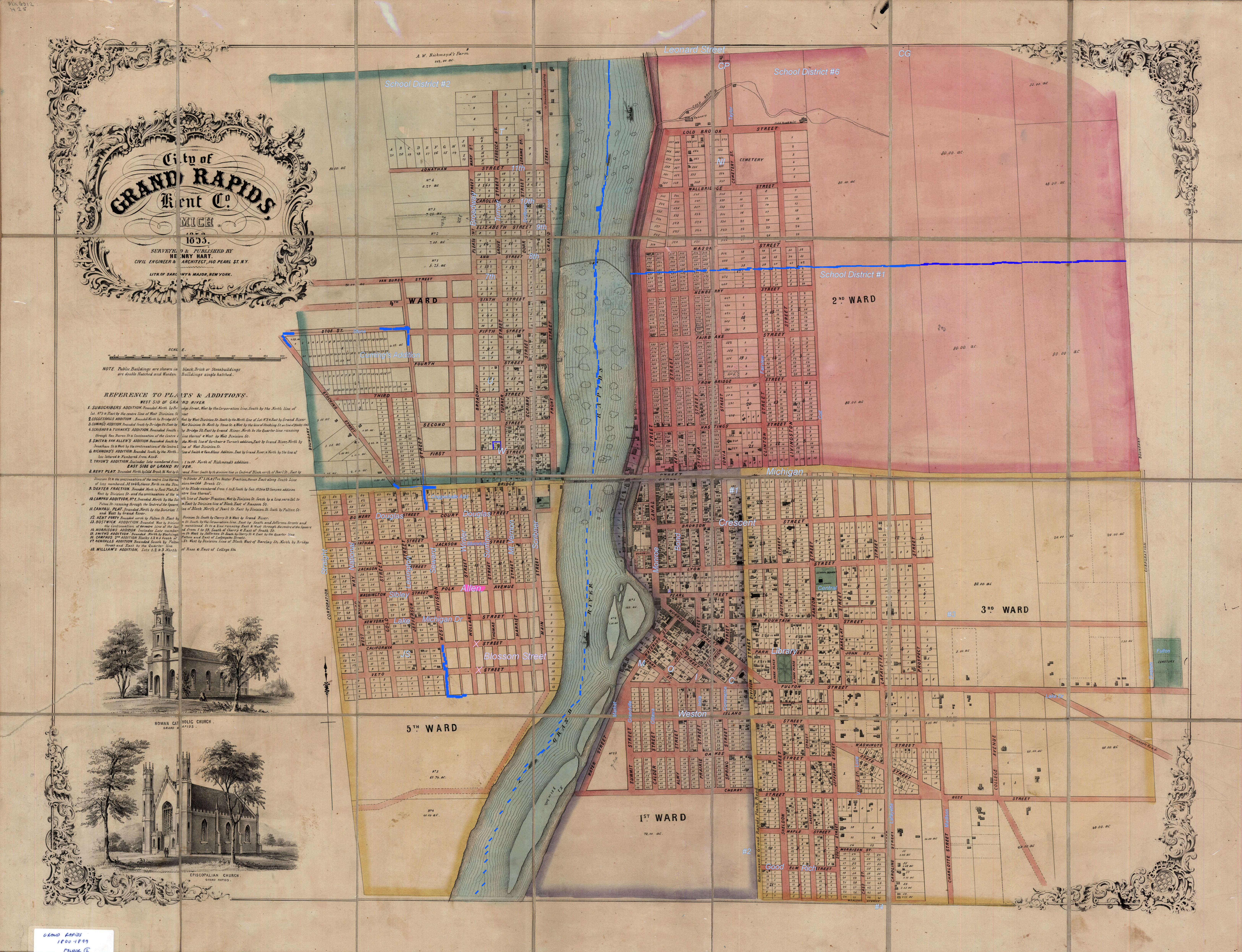 Flickr data on 2011-08-29: Tags: 1853 Grand Rapids, Michigan, historical map, Maps I have found from various university, government and sharing locales on the internet. License: CC BY 2.0 User: Marty Hogan